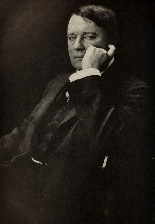 Portrait of Alfred Harmsworth, 1st Viscount Northcliffe